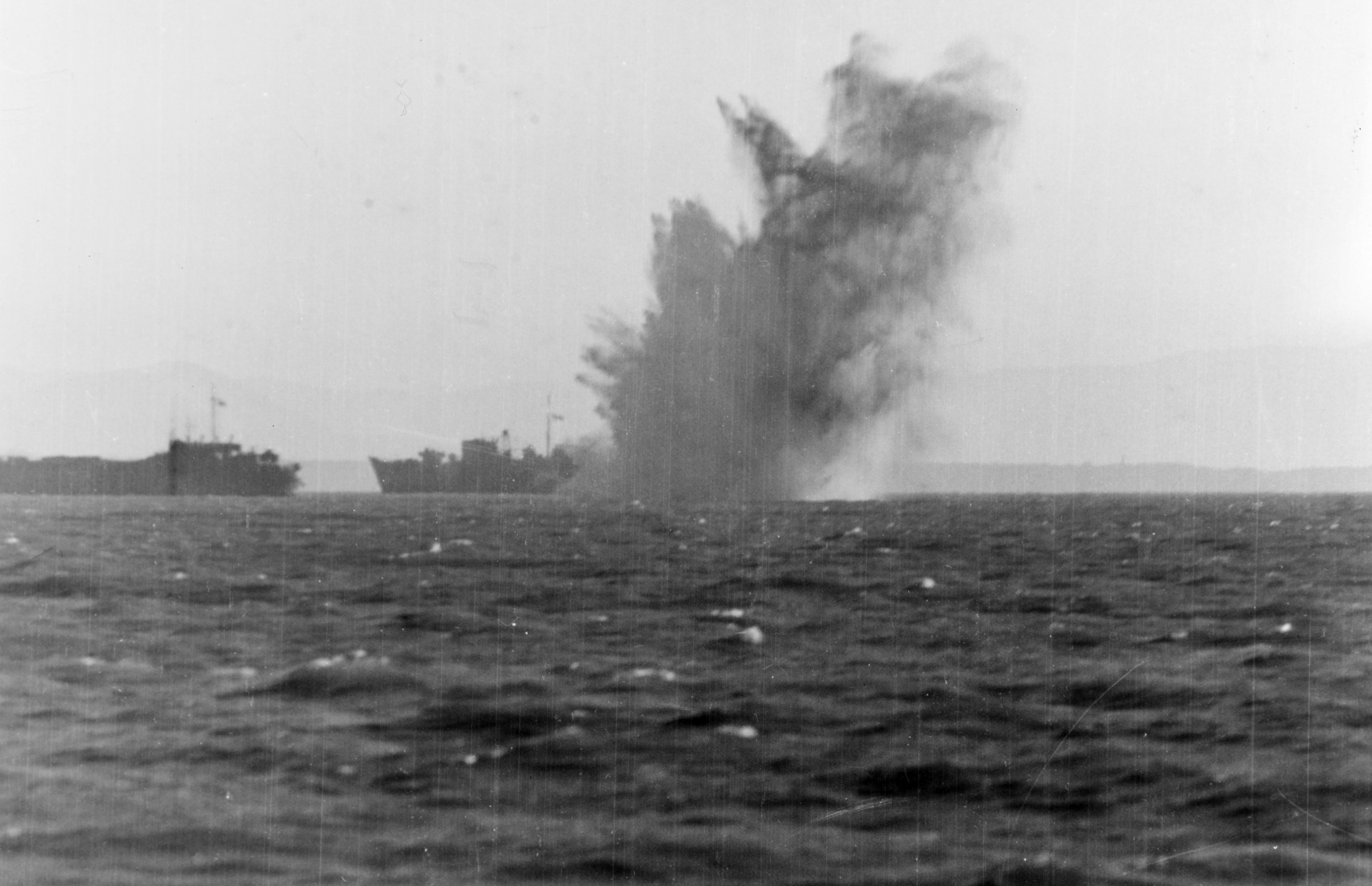 A German bomb explodes among the invasion shipping off Anzio on 22 January 1944. Ship in center, background, is probably HMS Princess Beatrix.